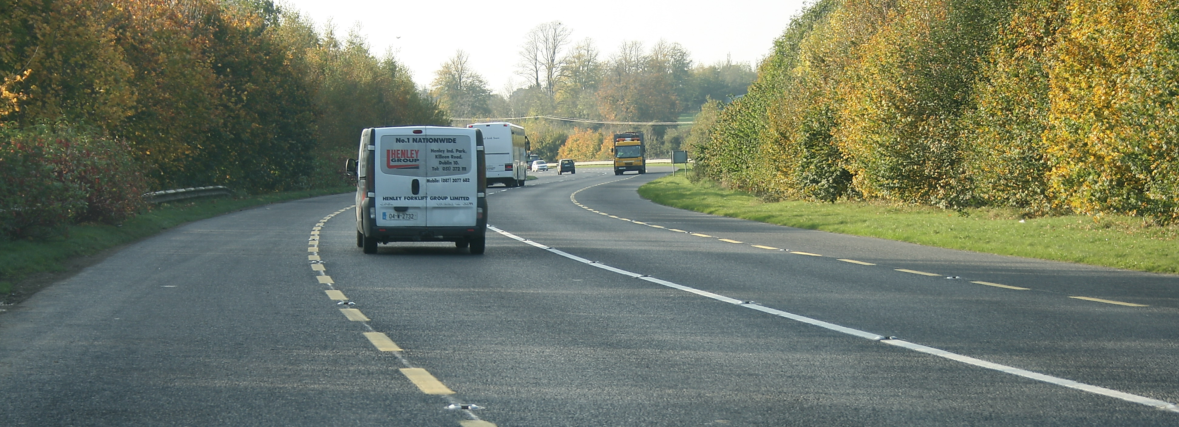 The N24 heading west on the northern bypass of Clonmel, County Tipperary, Ireland